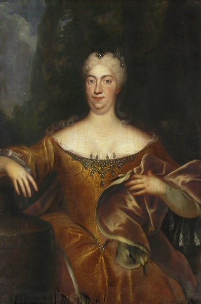 Portrait of Eleonore von Schwarzenberg (1682-1741)